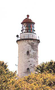 Lighthouse on Hjelm Island, Kattegat, Danmark